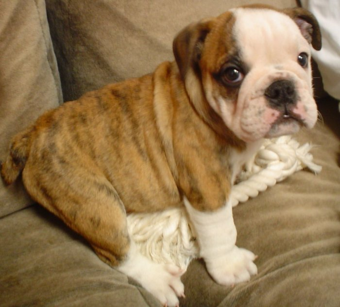 A male Bulldog puppy.